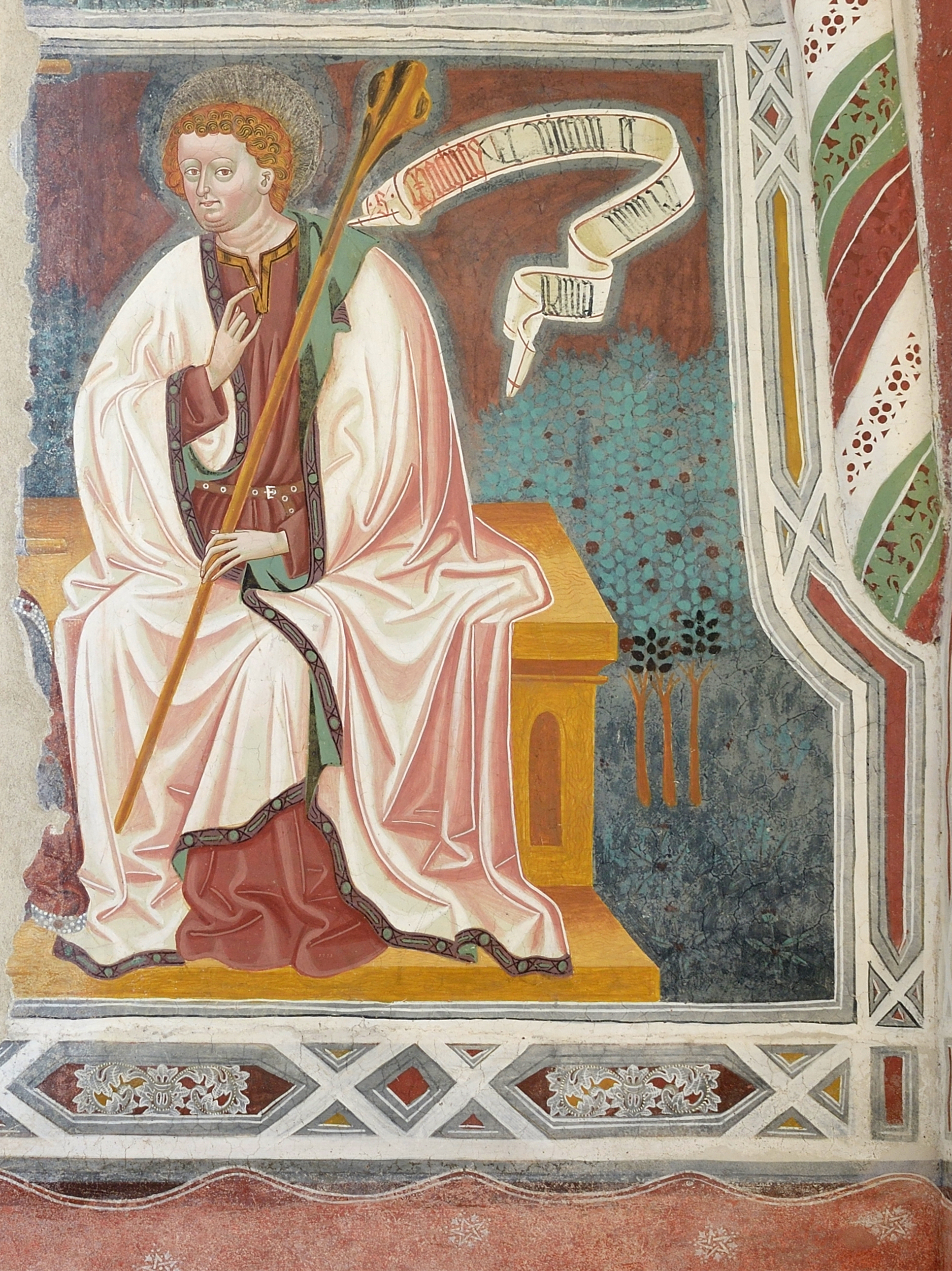 Saint Jude the Apostle in a 15th century fresco on the apsis of the St. James church in Urtijëi, in Italy.